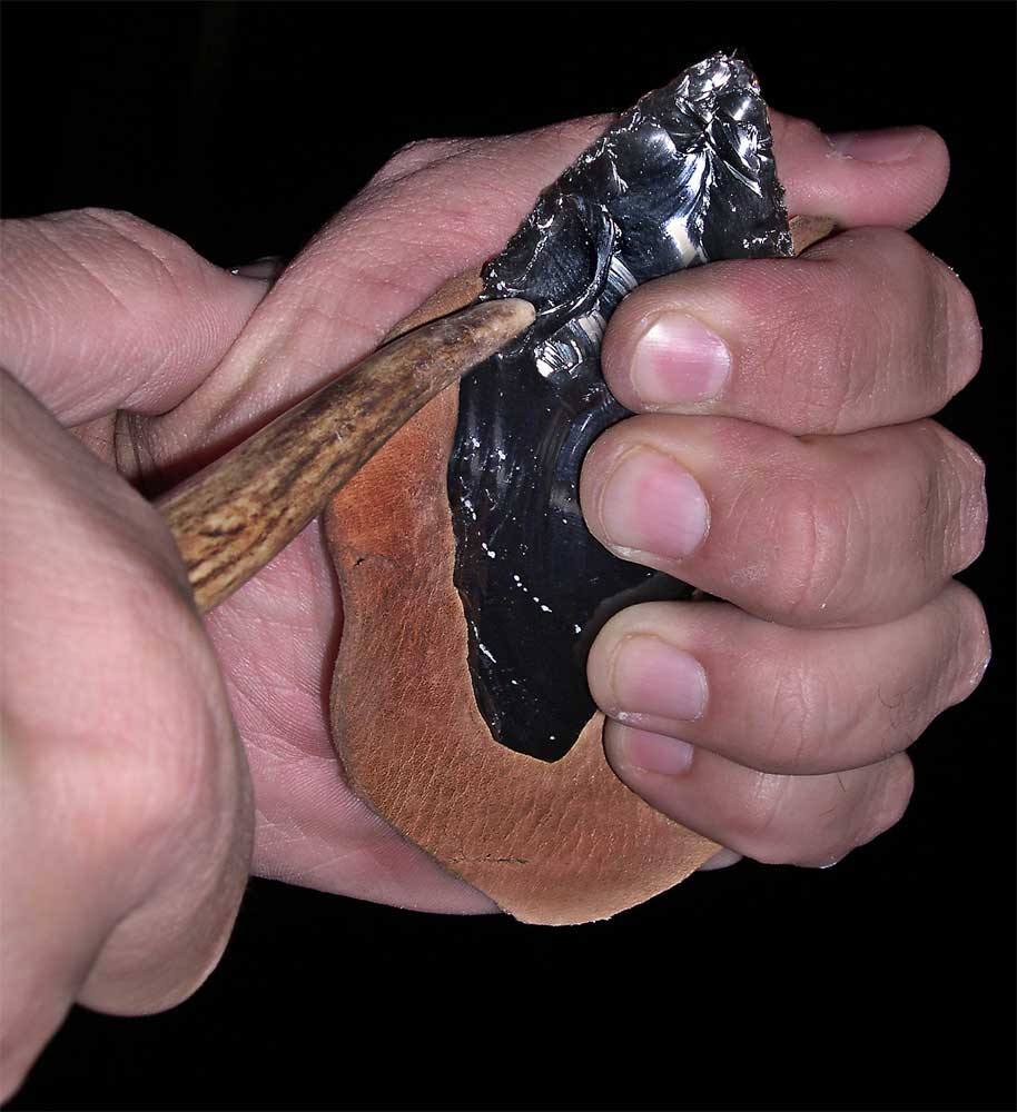 Retouch experimental by pressure with an antler piece